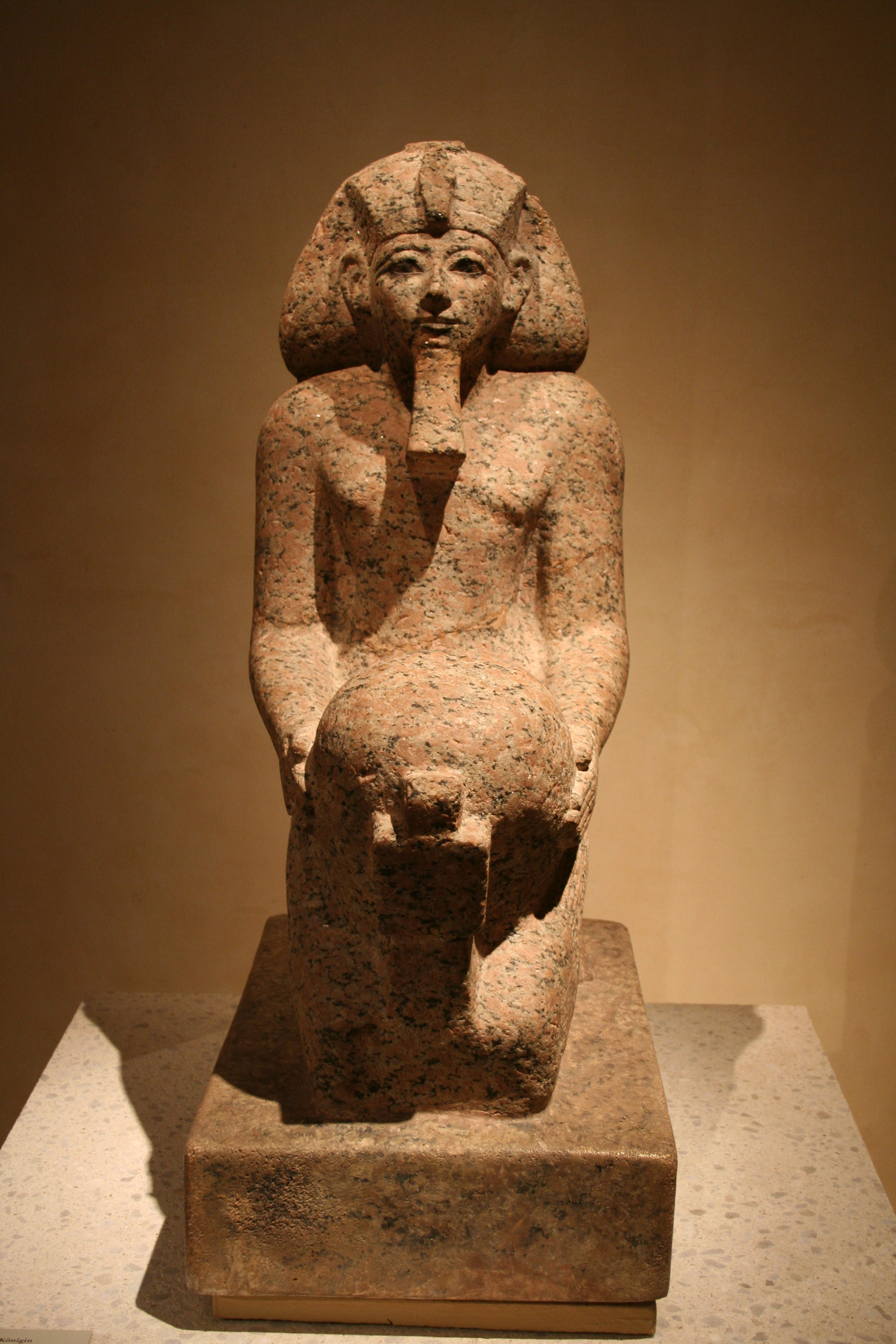 Ägyptisches Museum (Egyptian Museum), Berlin